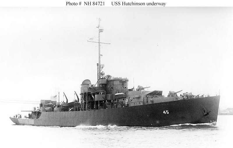 The USS Hutchinson (PF-45) Underway, probably circa February 1946, after being converted for weather reporting service. Courtesy of William H. Davis, 1976 U.S. Navy photo NH 84721 Commons:Category:Ships Commons:Category:Black and white photographs Commons:Category:1946